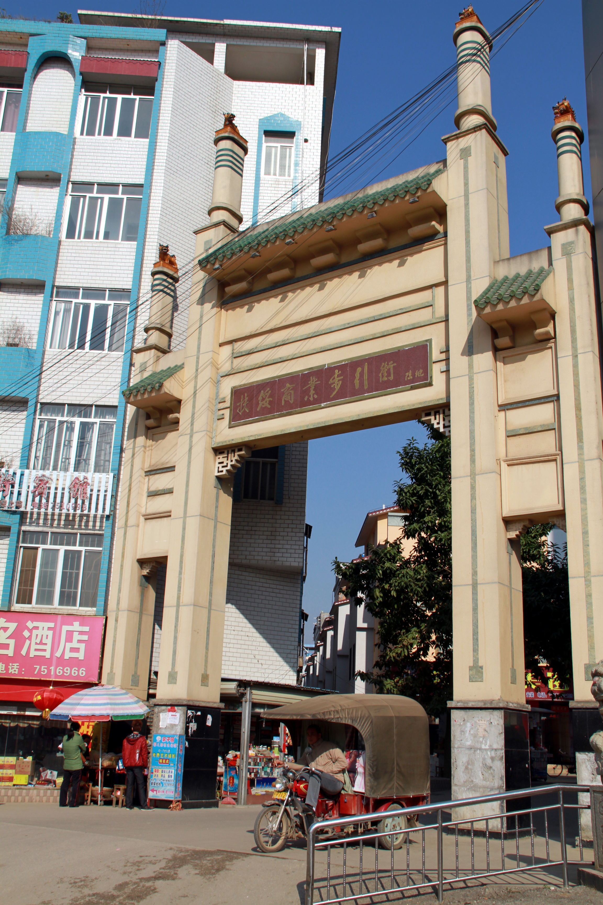 Photograph of an archway (entrance to a "pedestrian zone") in Fusui, Guangxi, China.